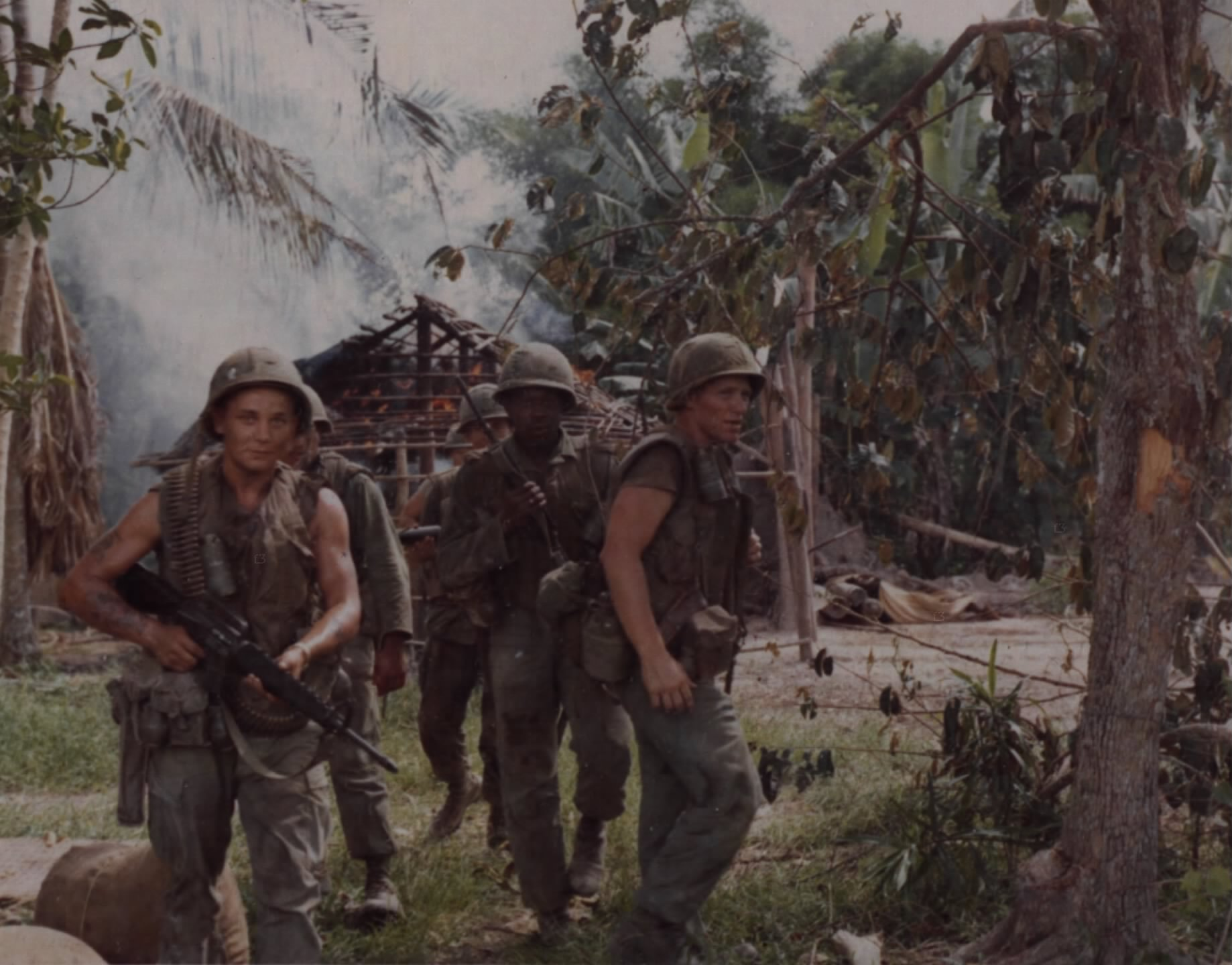 Members of "B" Company, 2nd Battalion, 14th Infantry, look for signs of the VC as they search a deserted farmhouse in the Xa Ba Phuoc Province area during Operation Wahiawa, a search and destroy mission conducted by the 25th Infantry Division, NE of Cu-Chi.